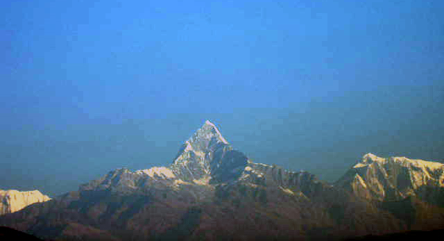 Machhapuchhre Mountain in Nepal